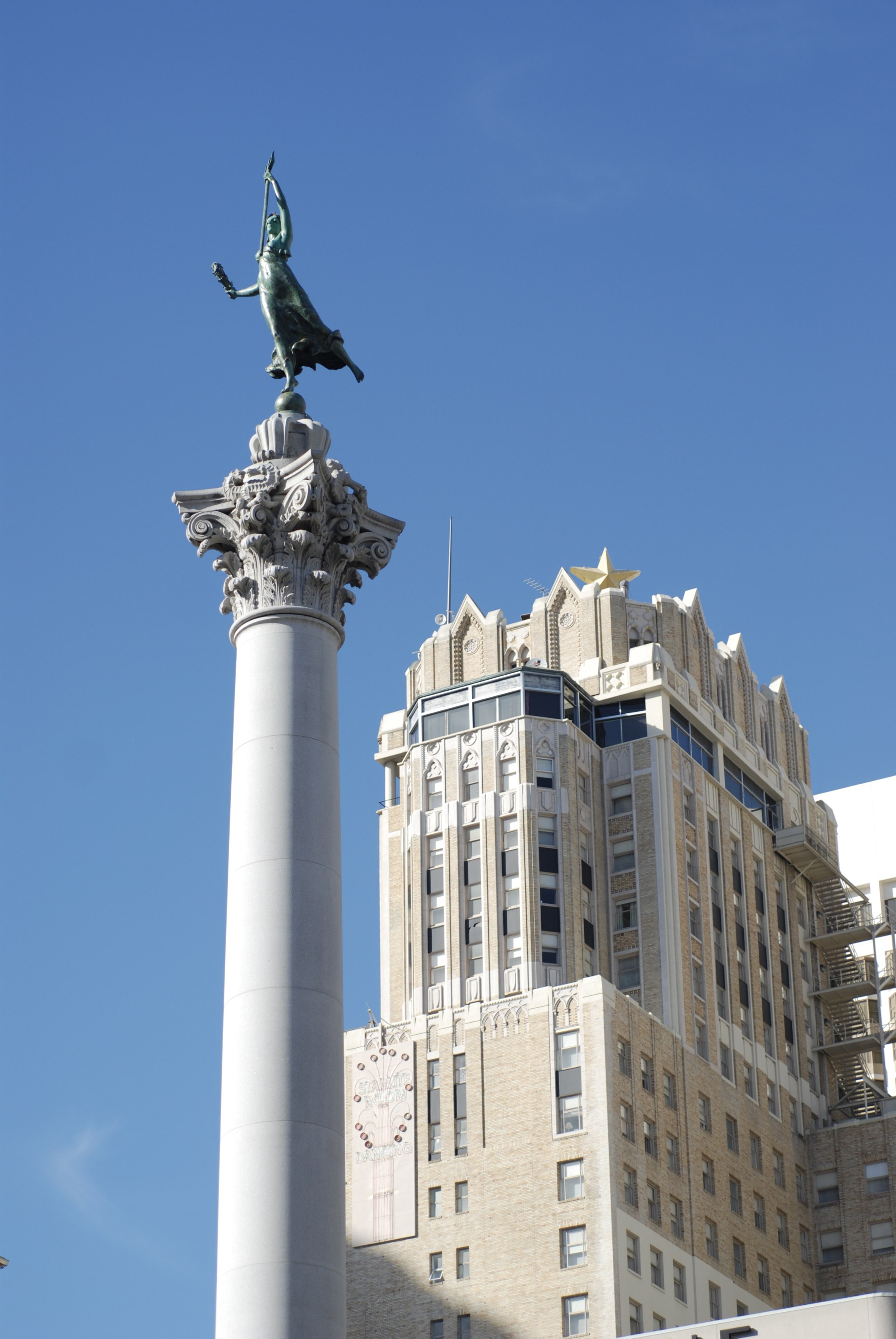 The Dewey Monument in Union Square, San Francisco, California, with the Sir Francis Drake Hotel in the background